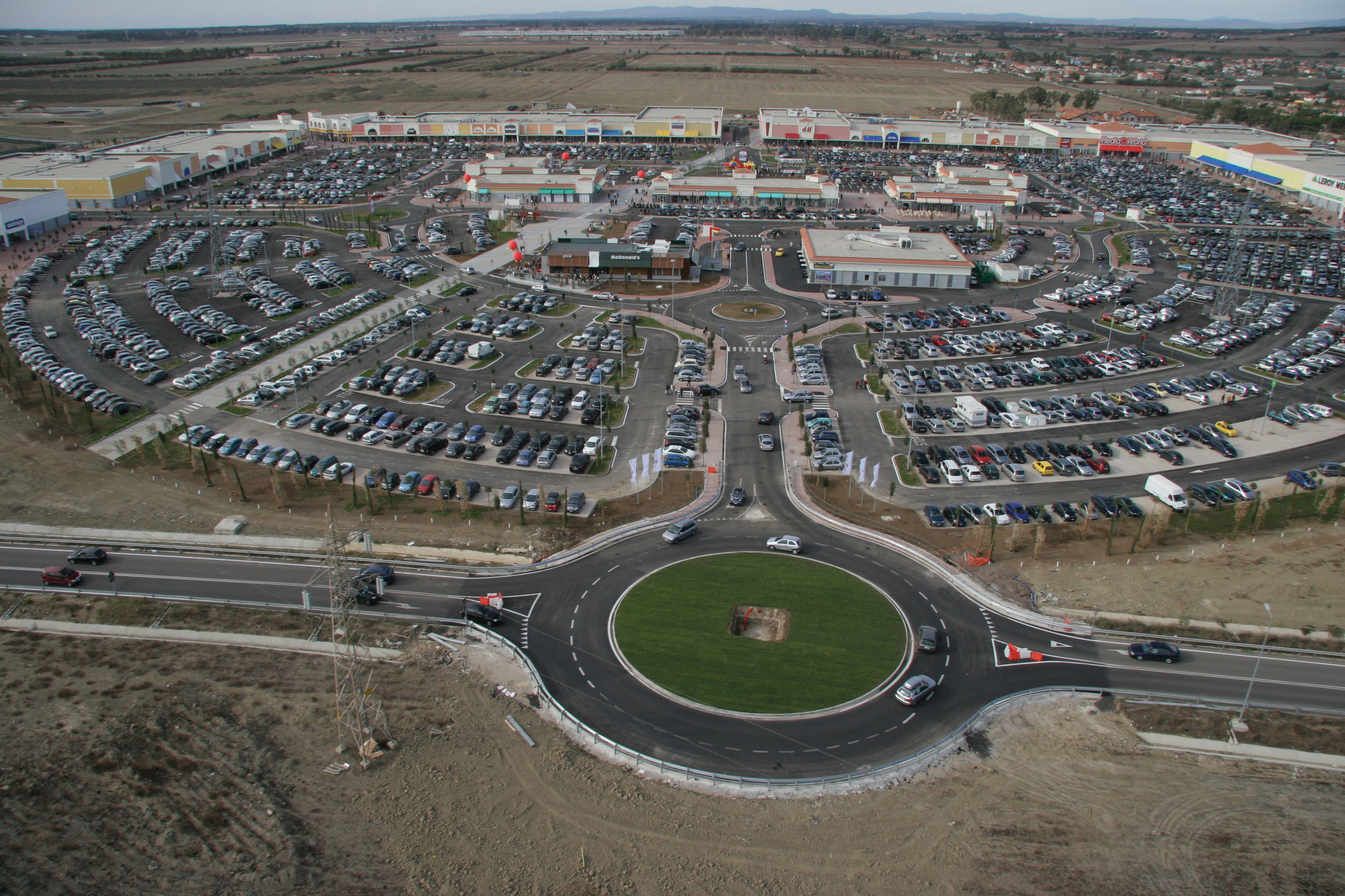 Marcet central Da Vinci